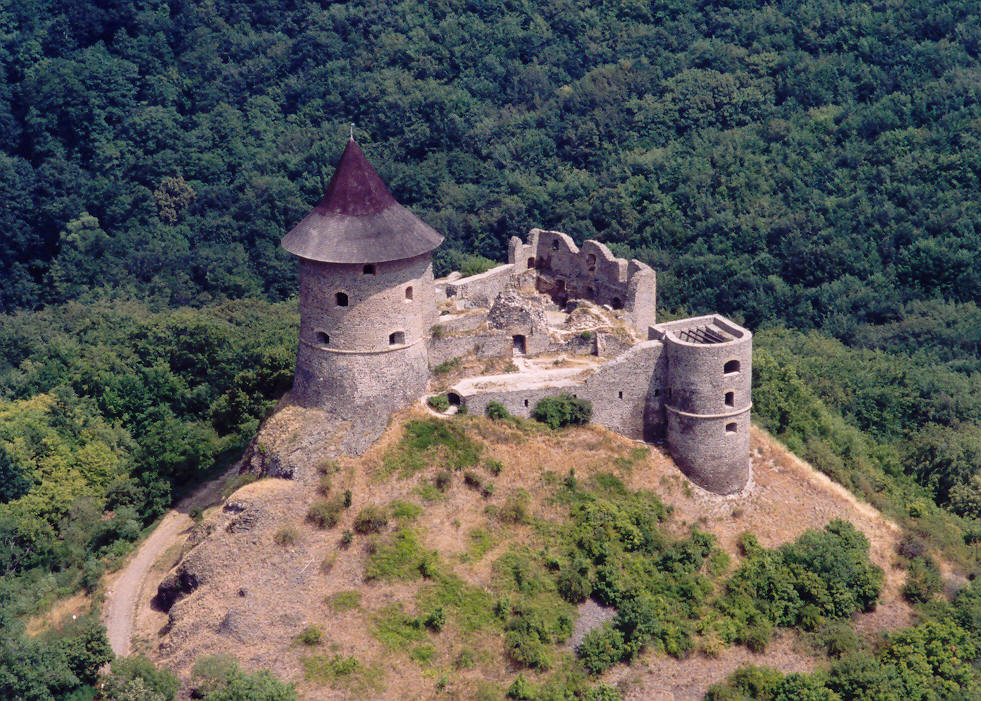 Aerial photo of the Šomoška Castle, Slovakia